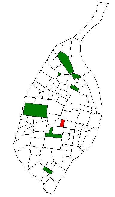 Map of St. Louis Neighborhood #29